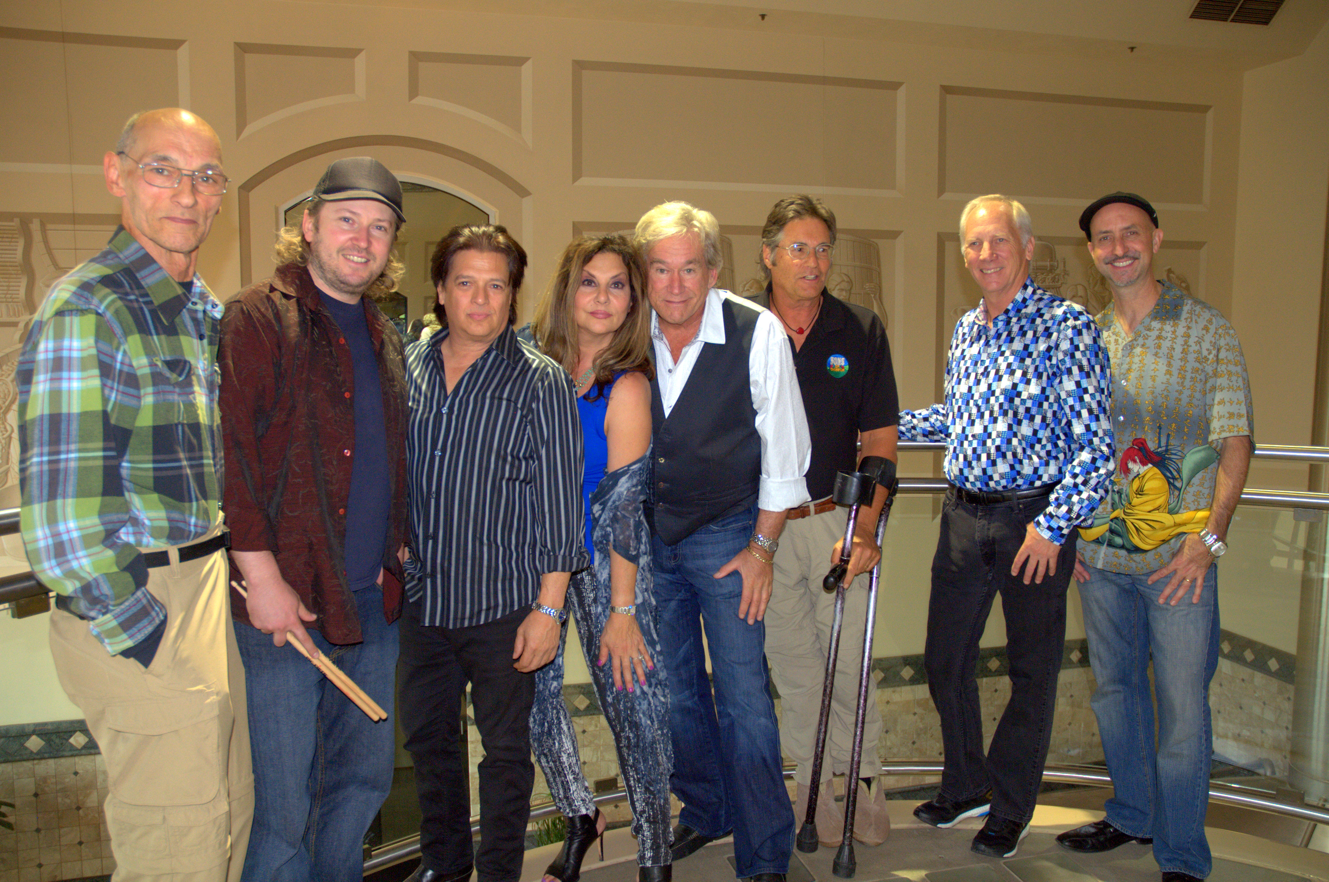 promo3